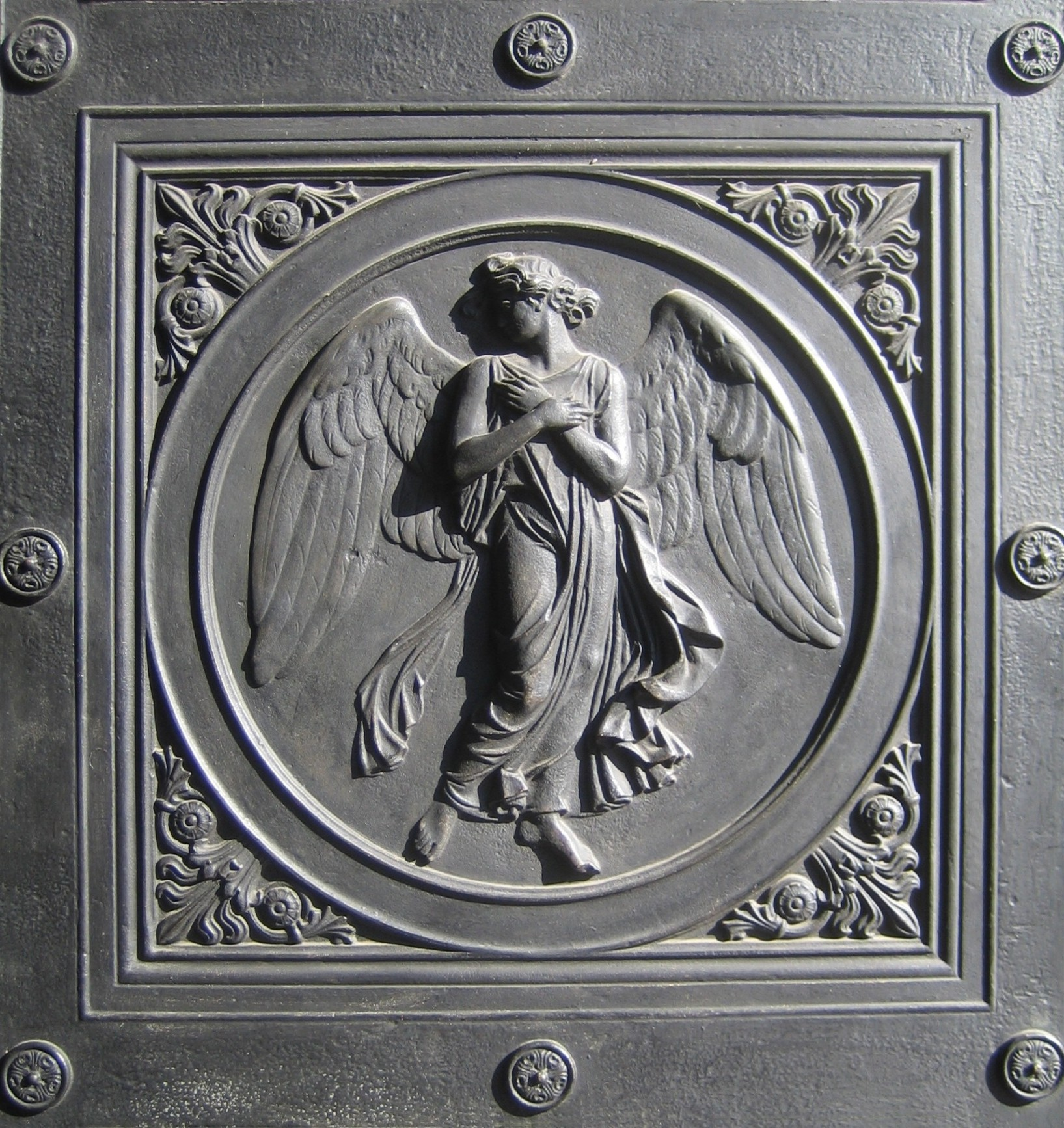 Berlin, Friedrichswerdersche Kirche, main entrance. Detail of the iron door, created by Christian Friedrich Tieck in about 1830.